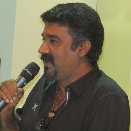 Malayalam cinema director Renjith in sharjah book fair-2012